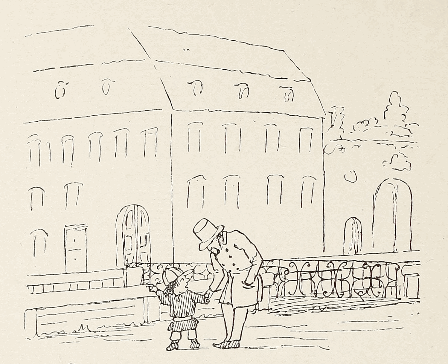 A humorous drawing drawing by the Danish draughtsman (and watchmaker) Fritz Jürgensen. This drawing is from Gyssebogen, a little book he made for his young nephew Frederik Nees, called Gysse. The text translates to something like: Dad! Is that the mighty Ocean? - No, little Gysse, that is the Frederiksholm Canal.